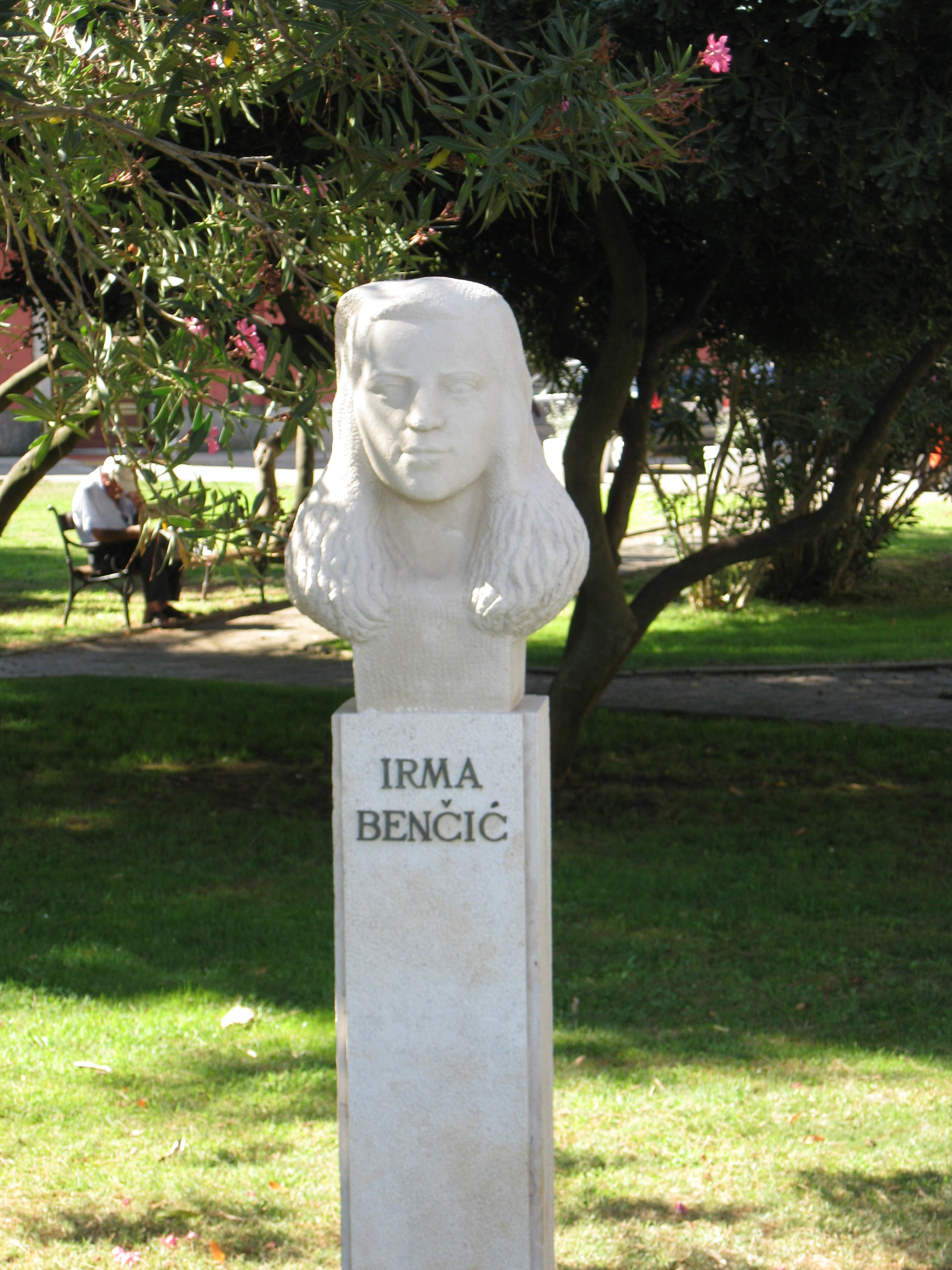 Sculpture of Irma Bencic in Novigrad, Istria